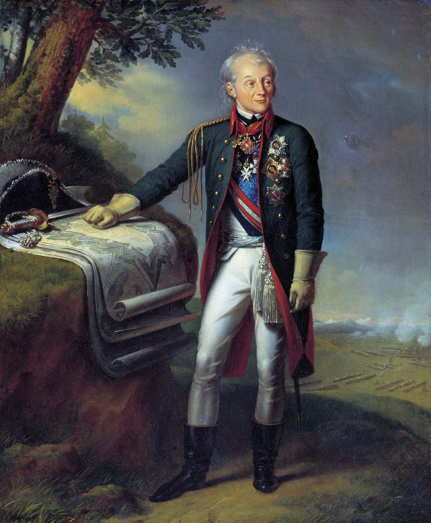 Russian fieldmarshal A.V. Suvorov